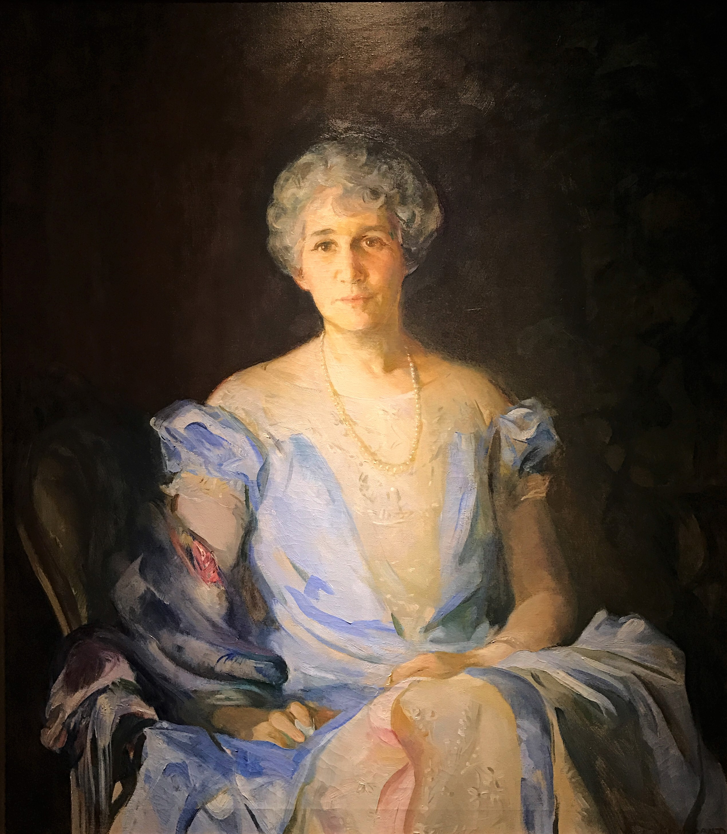 Ninah Cummer, founder of the Cummer Museum of Art & Gardens